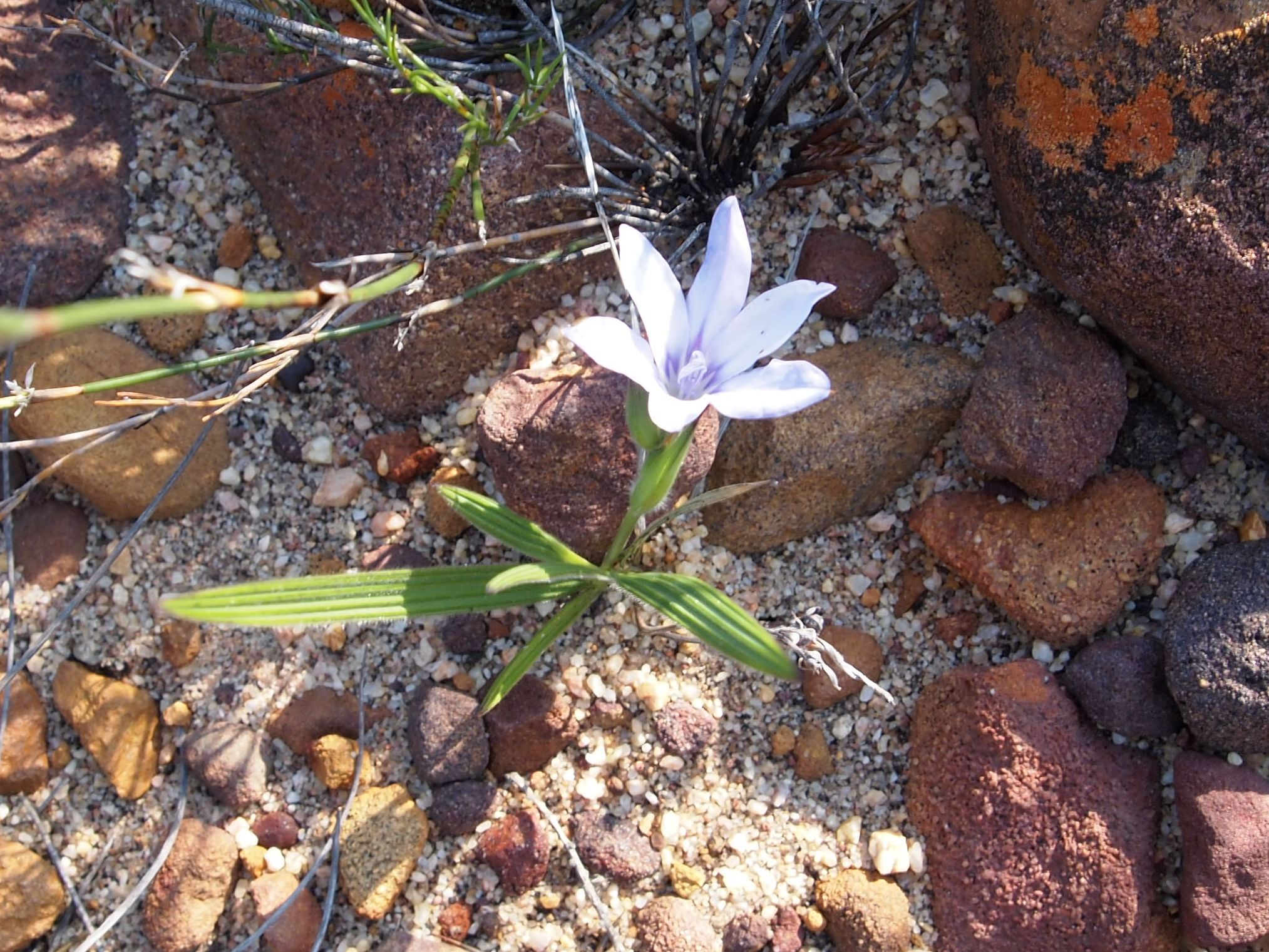 Table Mountain Cape Town